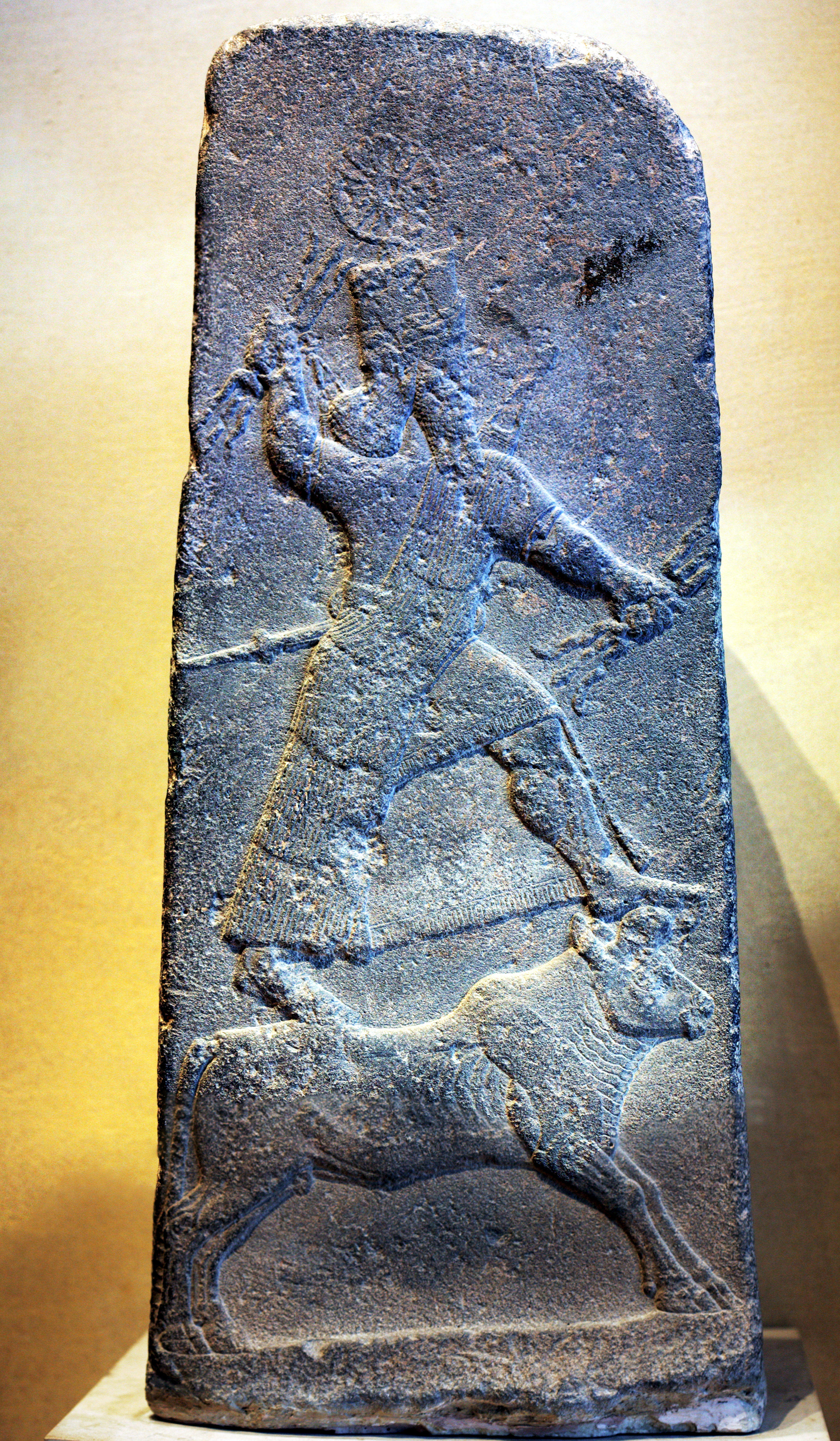 ArtistUnknownDescription Stele of god Adad on a bull with thunderbolts in both hands [1] Reign of Teglat-phalasar III, circa 744 - 727 BC Arslan Tash Basalt Dimensions1.36 m. high, 0.54 m. wide, 0.42 m deepCurrent location (Inventory)Louvre Museum Native nameMusée du LouvreLocationParisCoordinates48° 51′ 37″ N, 2° 20′ 15″ E Established1793Website control : Q19675 VIAF: 257711507 ISNI: 0000 0001 2260 177X ULAN: 500125189 LCCN: n80020283 NLA: 35912436 WorldCat Richelieu Rez-de-chaussée Mésopotamie - Syrie du Nord. Assyrie : Til Barsip, Arslan Tash, Nimrud, Ninive Salle 6Accession numberAO 13092Credit lineFound by F. Thureau-Dangin and A. Barrois in 1928Source/PhotographerRama Stele of god Adad on a bull with thunderbolts in both hands [1] Reign of Teglat-phalasar III, circa 744 - 727 BC Arslan Tash Basalt